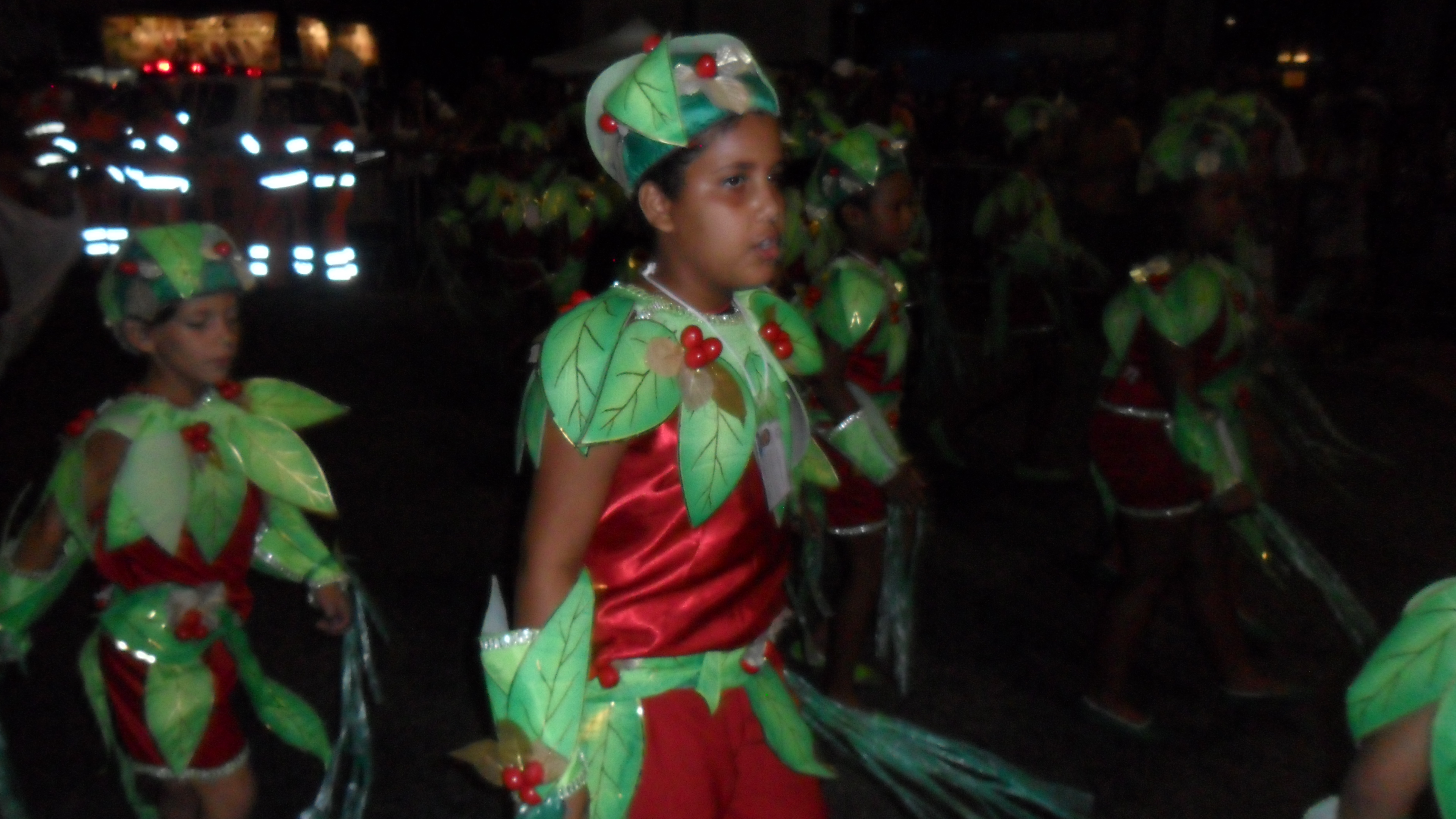 GRES Colibri de Mesquita